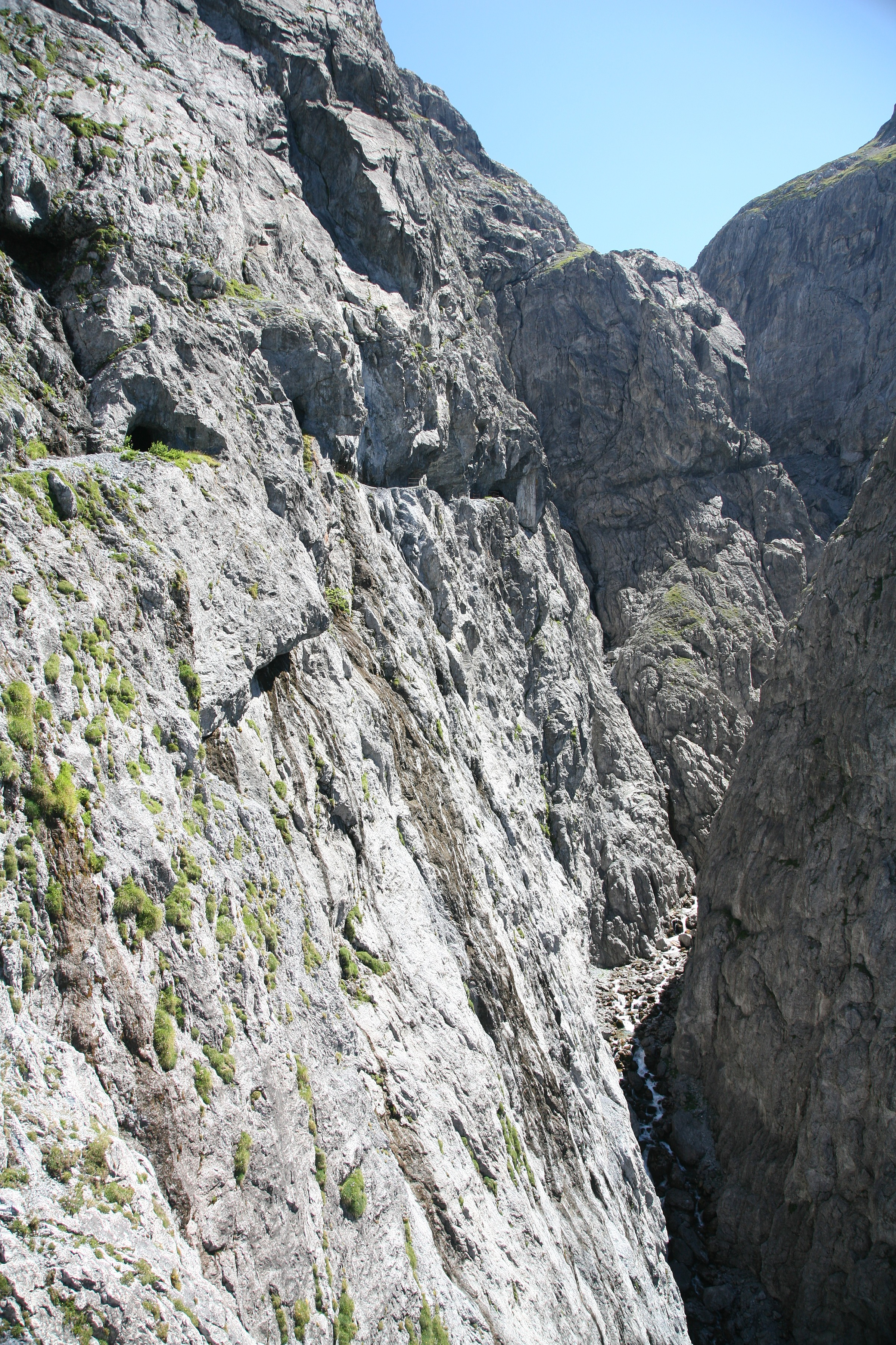 Uina Canyon, Swiss Alps